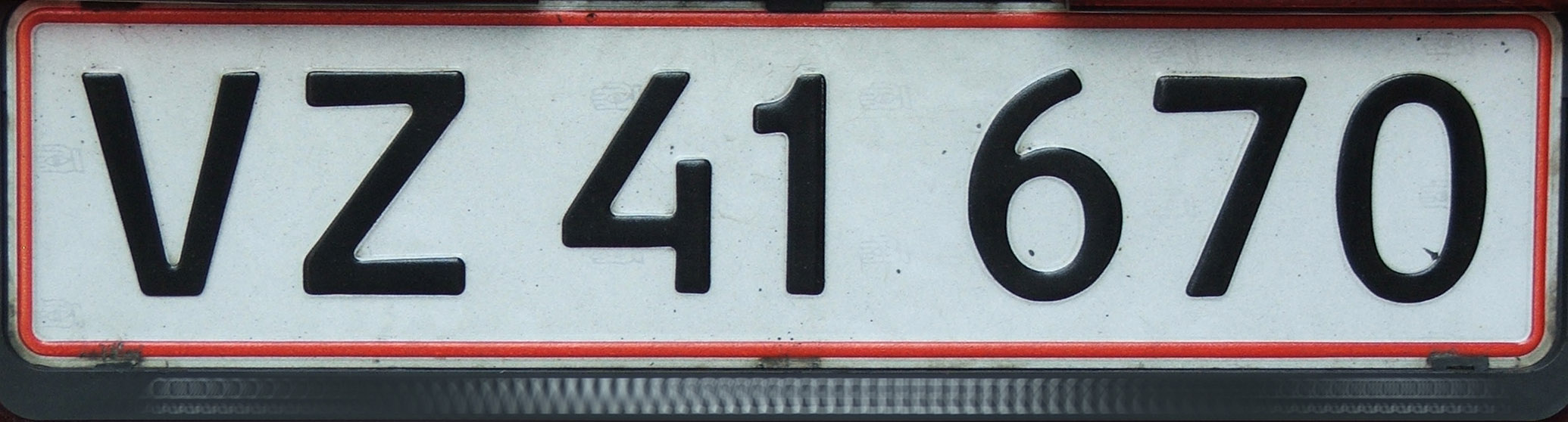 Danish registration plate as seen in 2007.